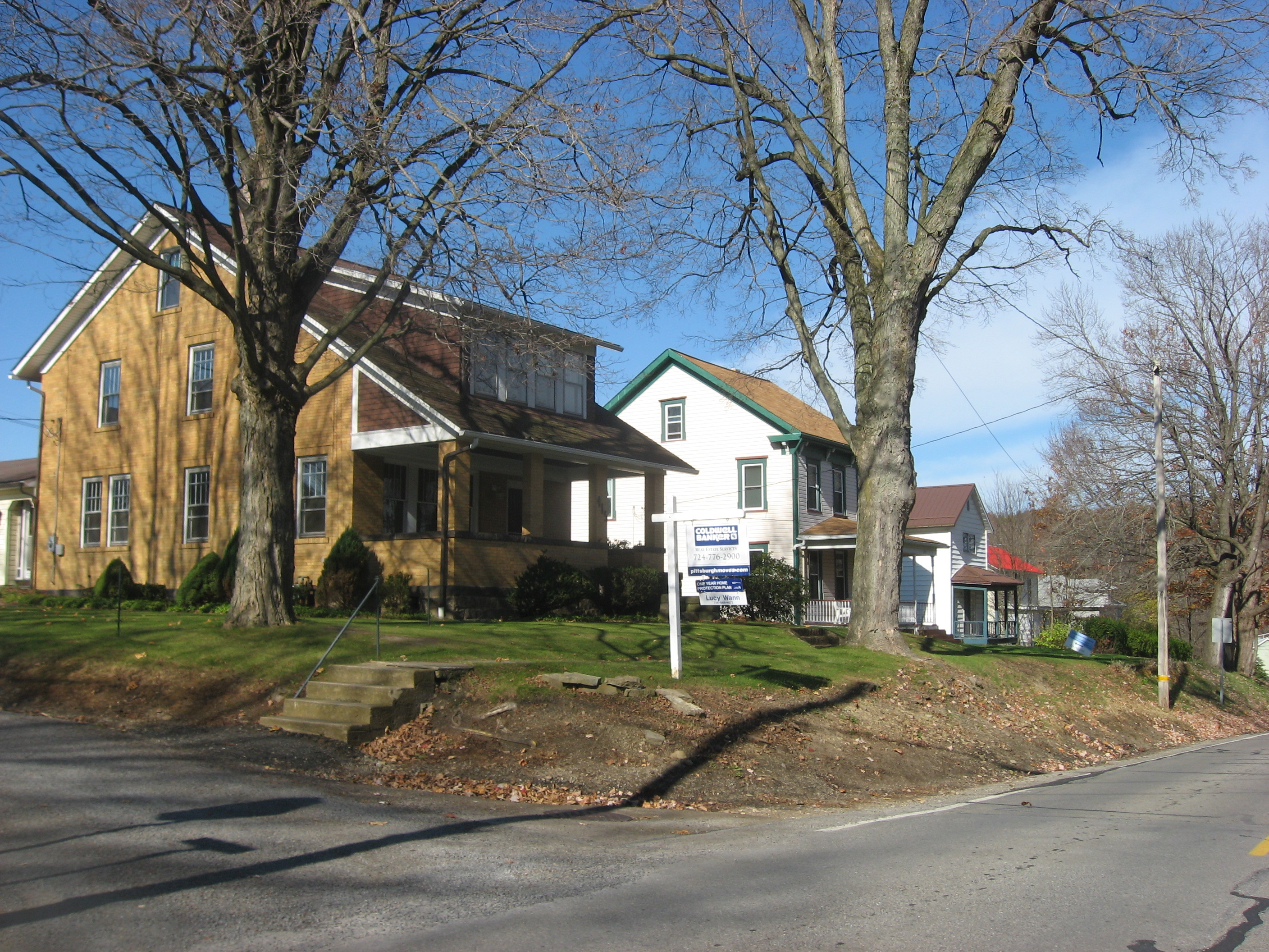 Houses on the western side of Main Street (Pennsylvania Route 58) at the Third Street intersection in St. Petersburg, Pennsylvania, United States.